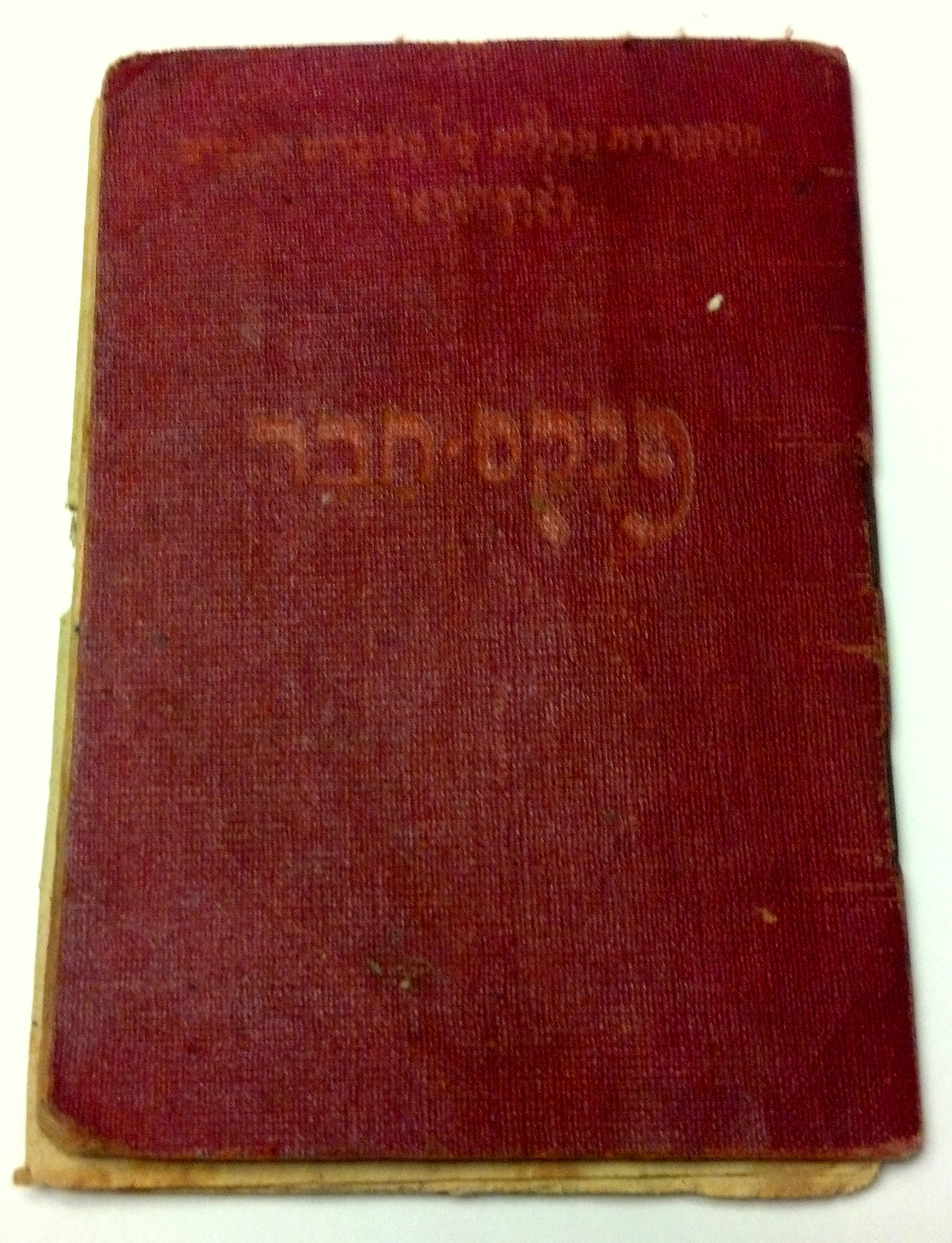 Histadrut folder membership